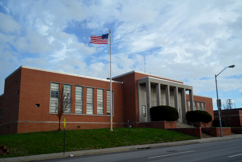 Baltimore Police Southeast District